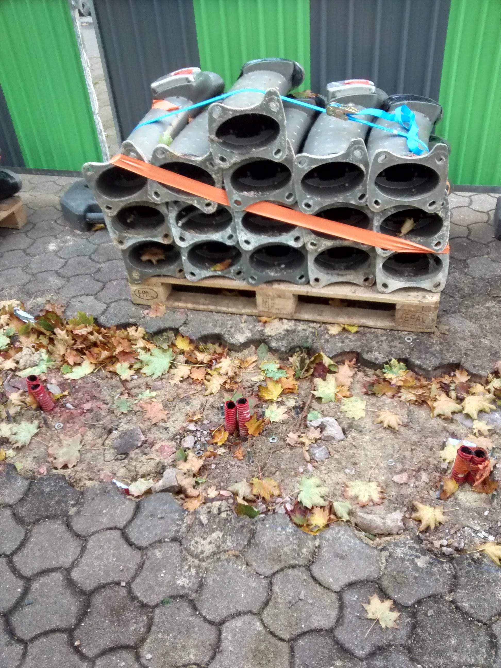 Démontage d'une station Vélib en Octobre 2017 dans le 15eme - Plots de biais